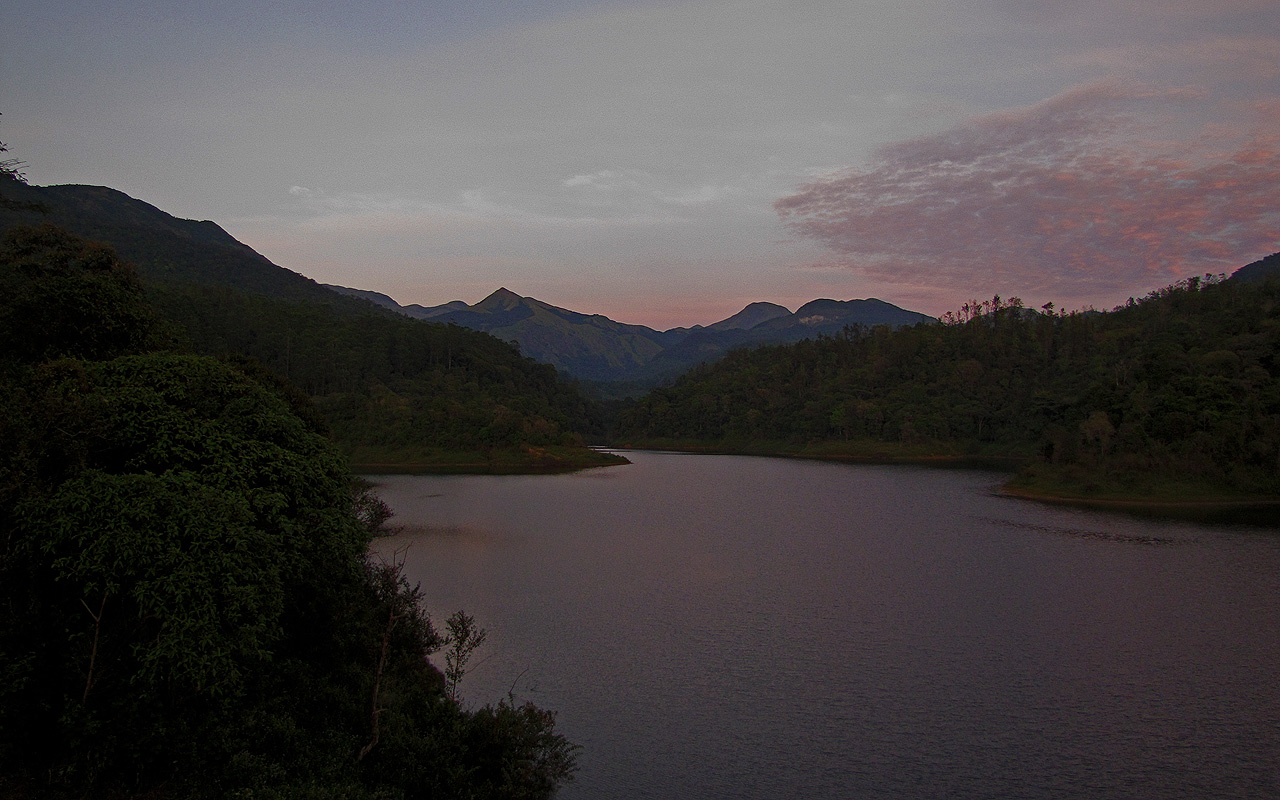 Lower Nirar waters and Oosimalai peak in the background, Valparai